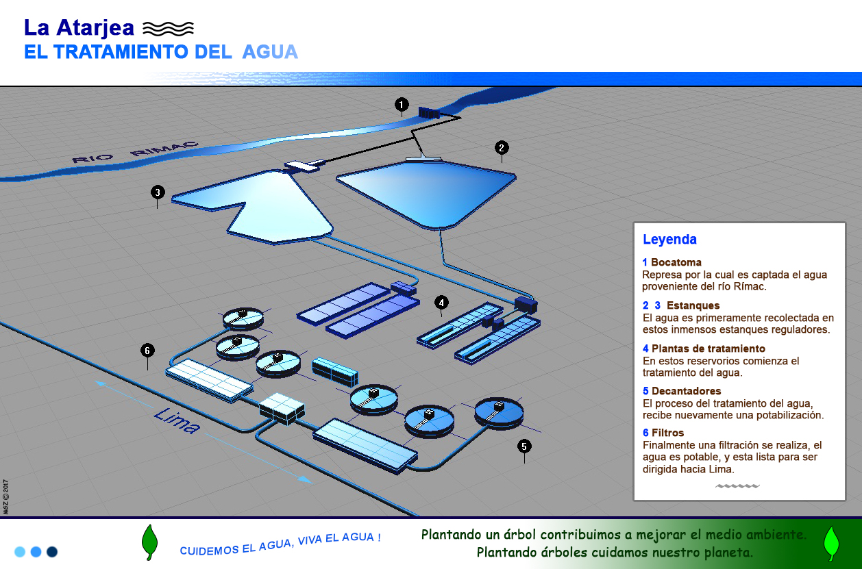 Imagen 3d que ilustra la planta de la Atarjea